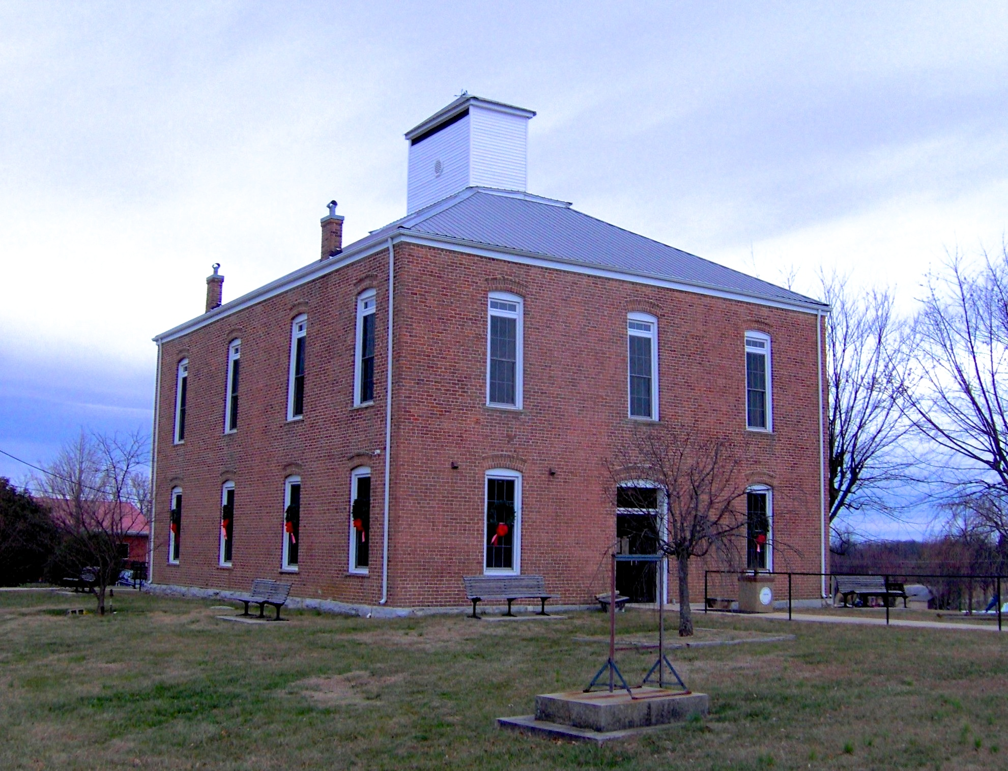 Van Buren County Courthouse in Spencer, Tennessee, located in the Southeastern United States.